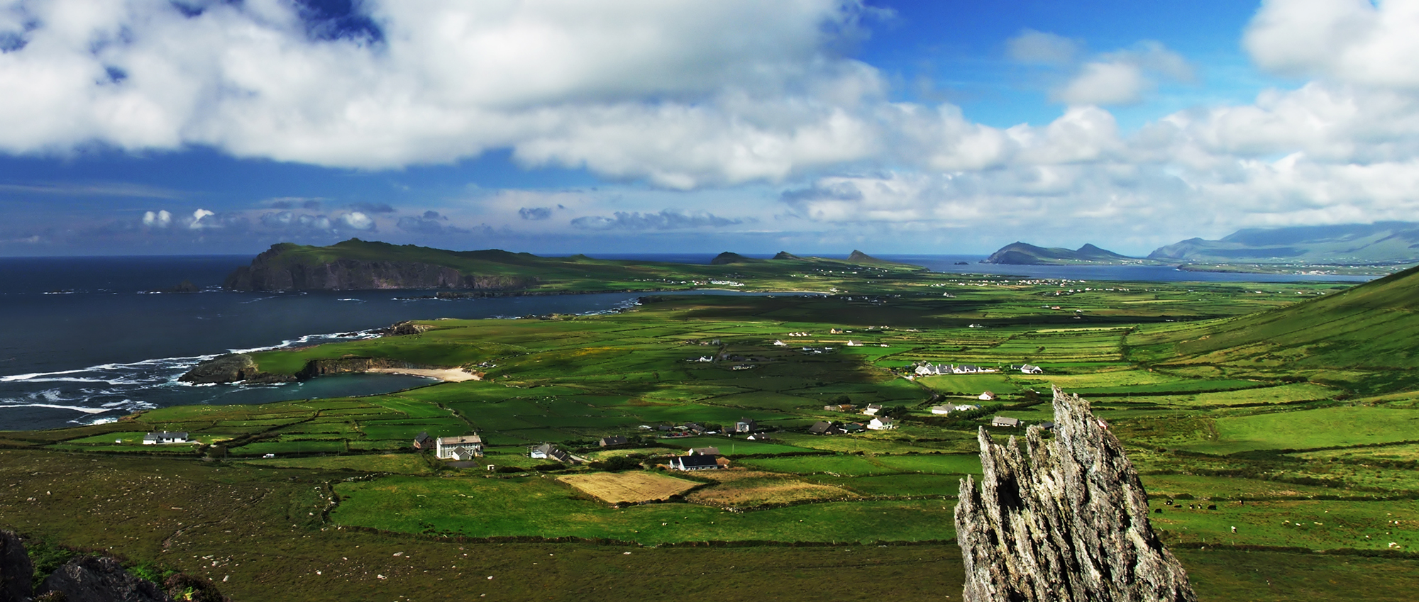 Dingle North West, Ireland - Viewed from the higher of two craggy bits near Clogher Head. Coastal features are (L-R) Clogher Strand, Sybil Head, the Three Sisters, Ballydavid Head, Beenmore, with Brandon Mountain on extreme right.